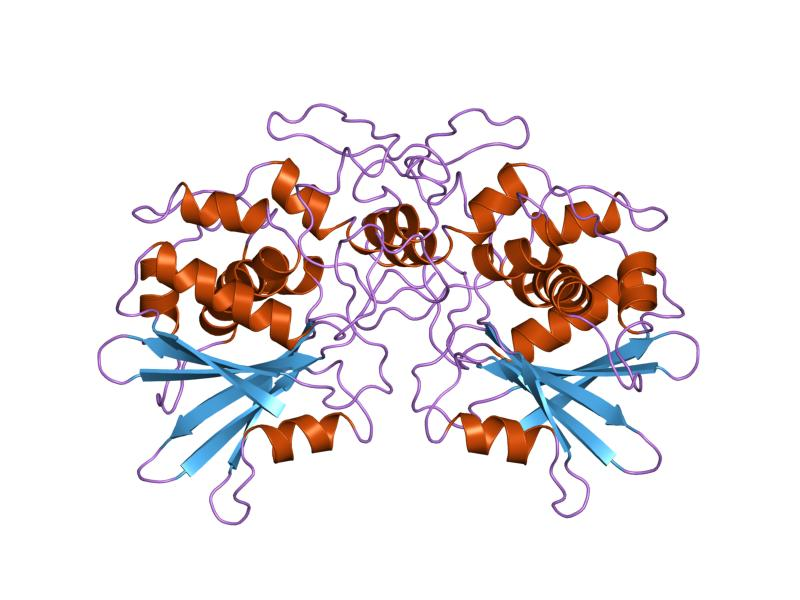 Cartoon representation of the molecular structure of protein registered with 1paf code.